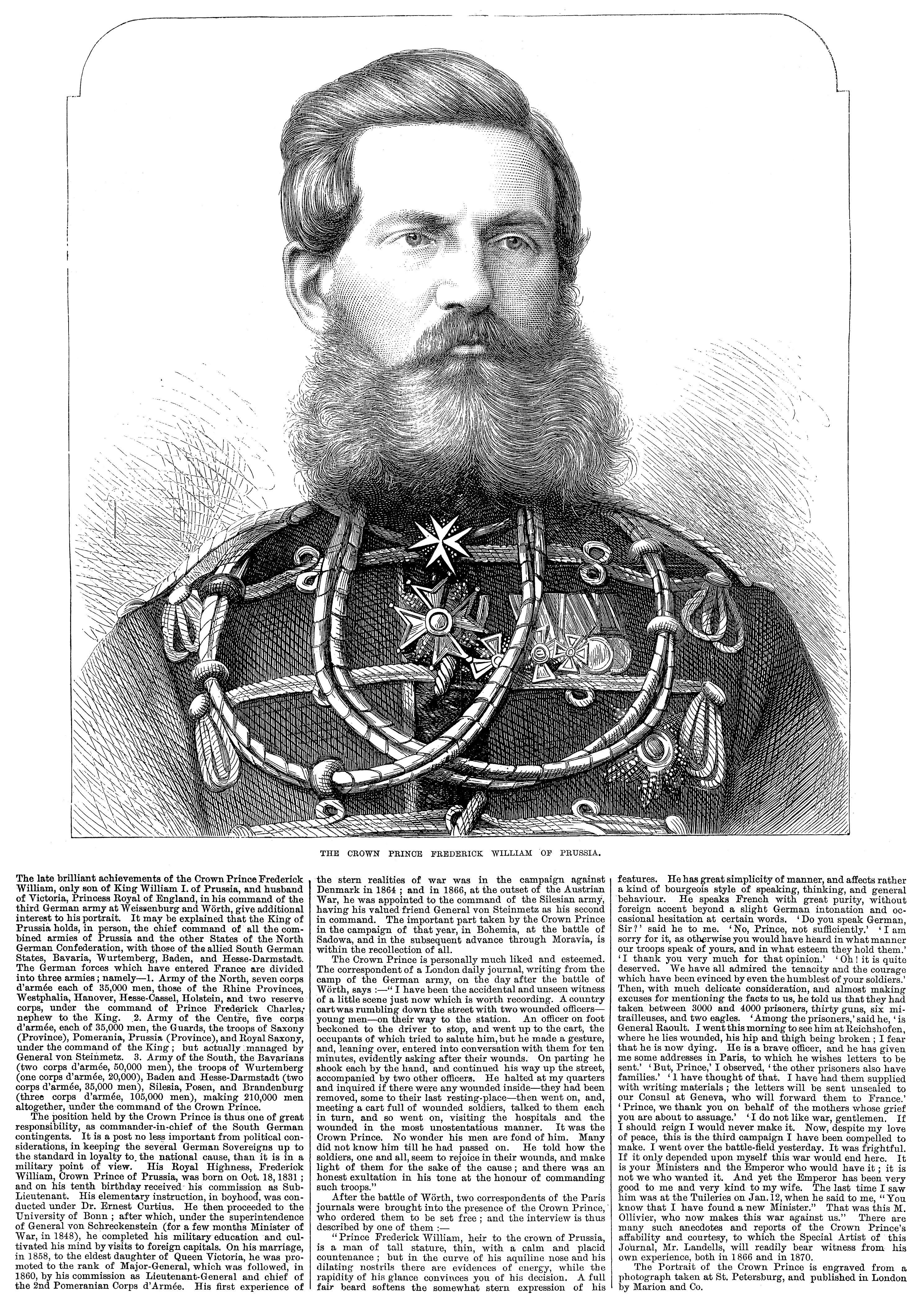 Crown Prince Frederick William of Prussia, 1870. From a portrait taken in St. Petersburg.